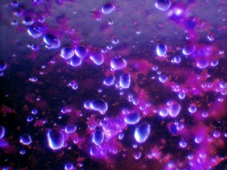 Stained starch in dark field microscopy